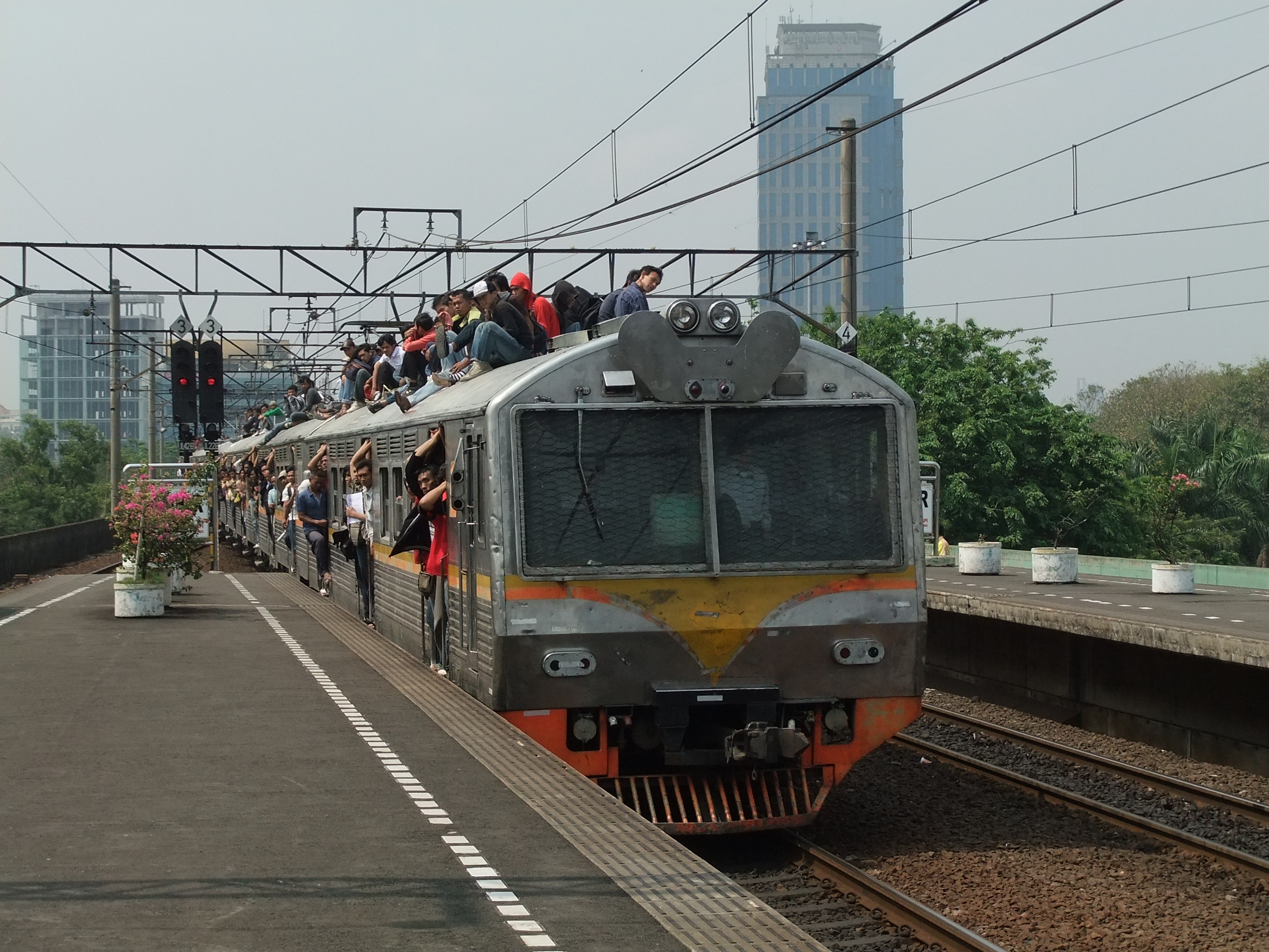 Economy class commuter train, Gambir Station